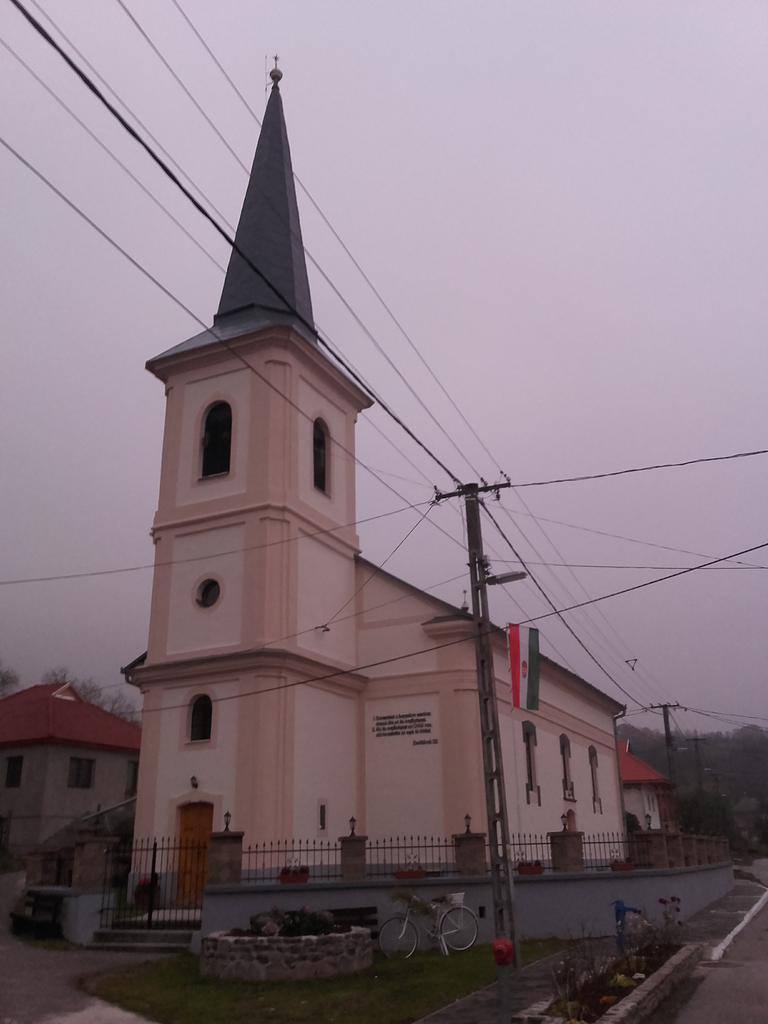 The Reformed church of Pusztafalu, Hungary